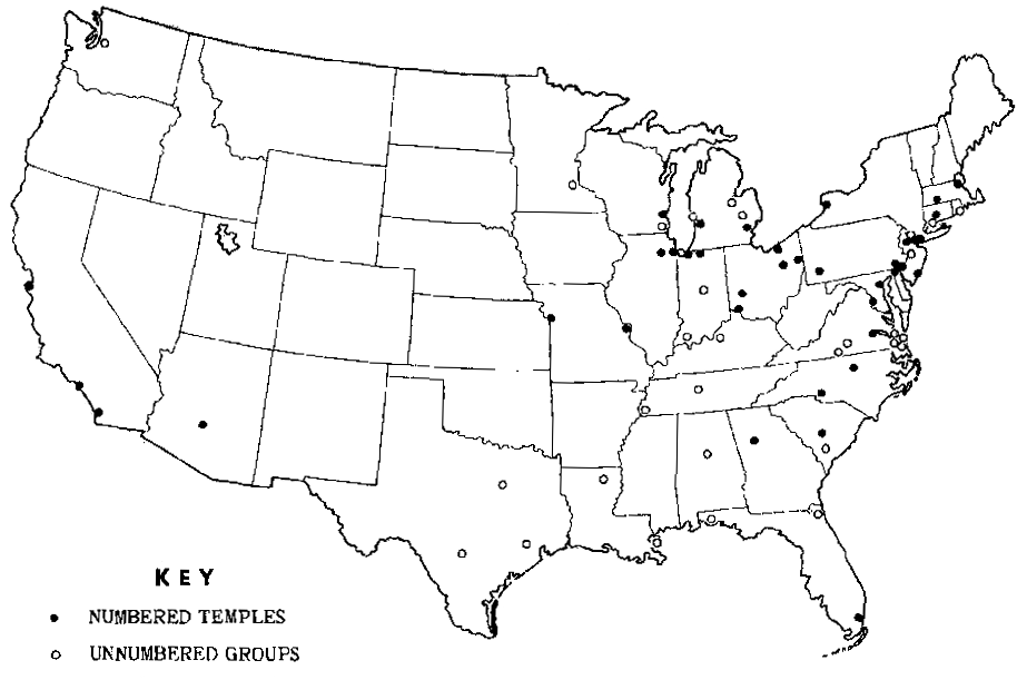 Image from the FBI monograph of the Nation of Islam (1965): Map of "Muhammad's Temples of Islam"